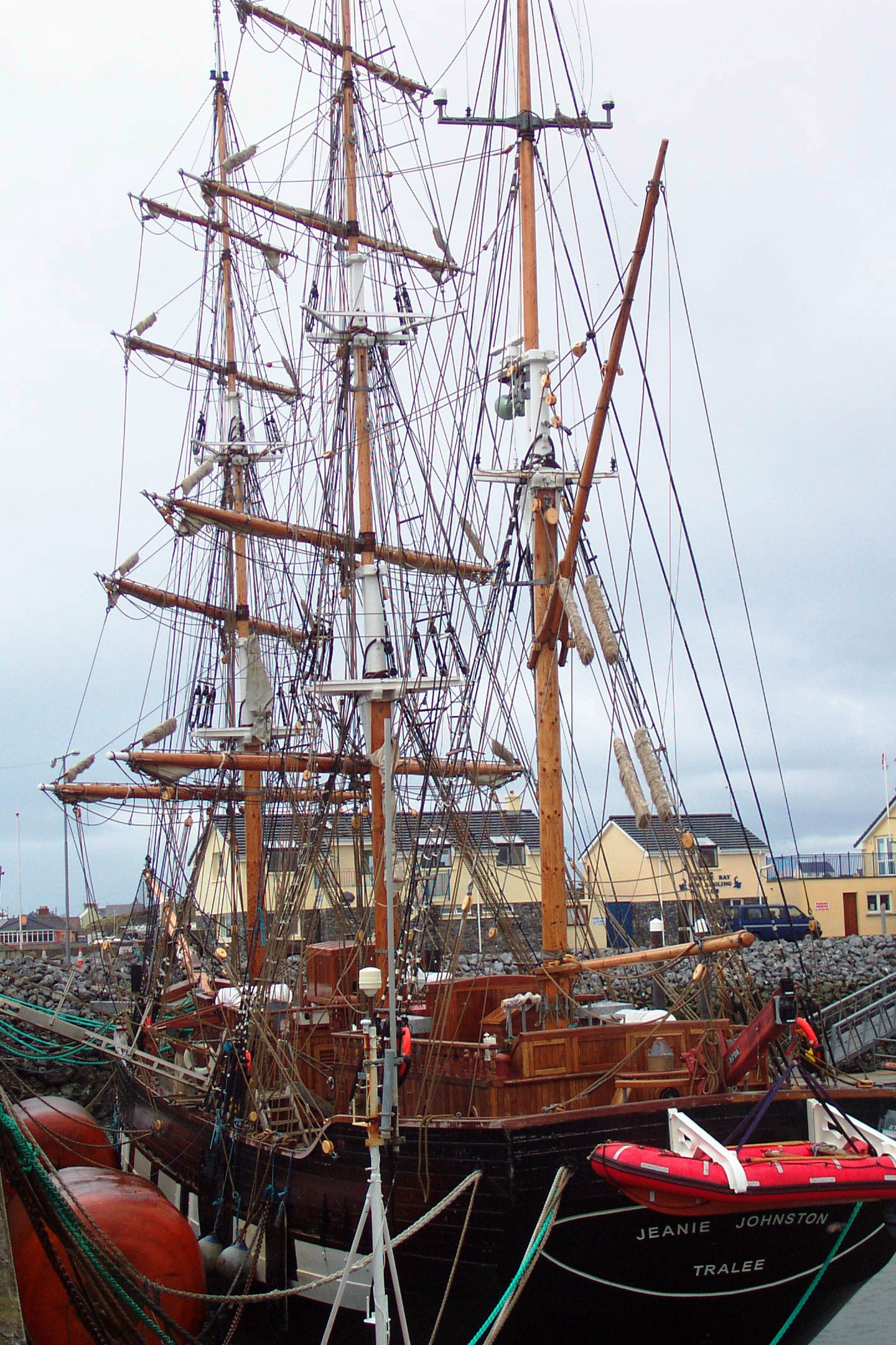 This was taken when the Jeanie Johnston (replica famine ship) was being fitted at fenit harbour county kerry Ireland. As part of the St.Patrick's festival in Dublin 2006, she'll be open to the public to view at the North Wall Quay.